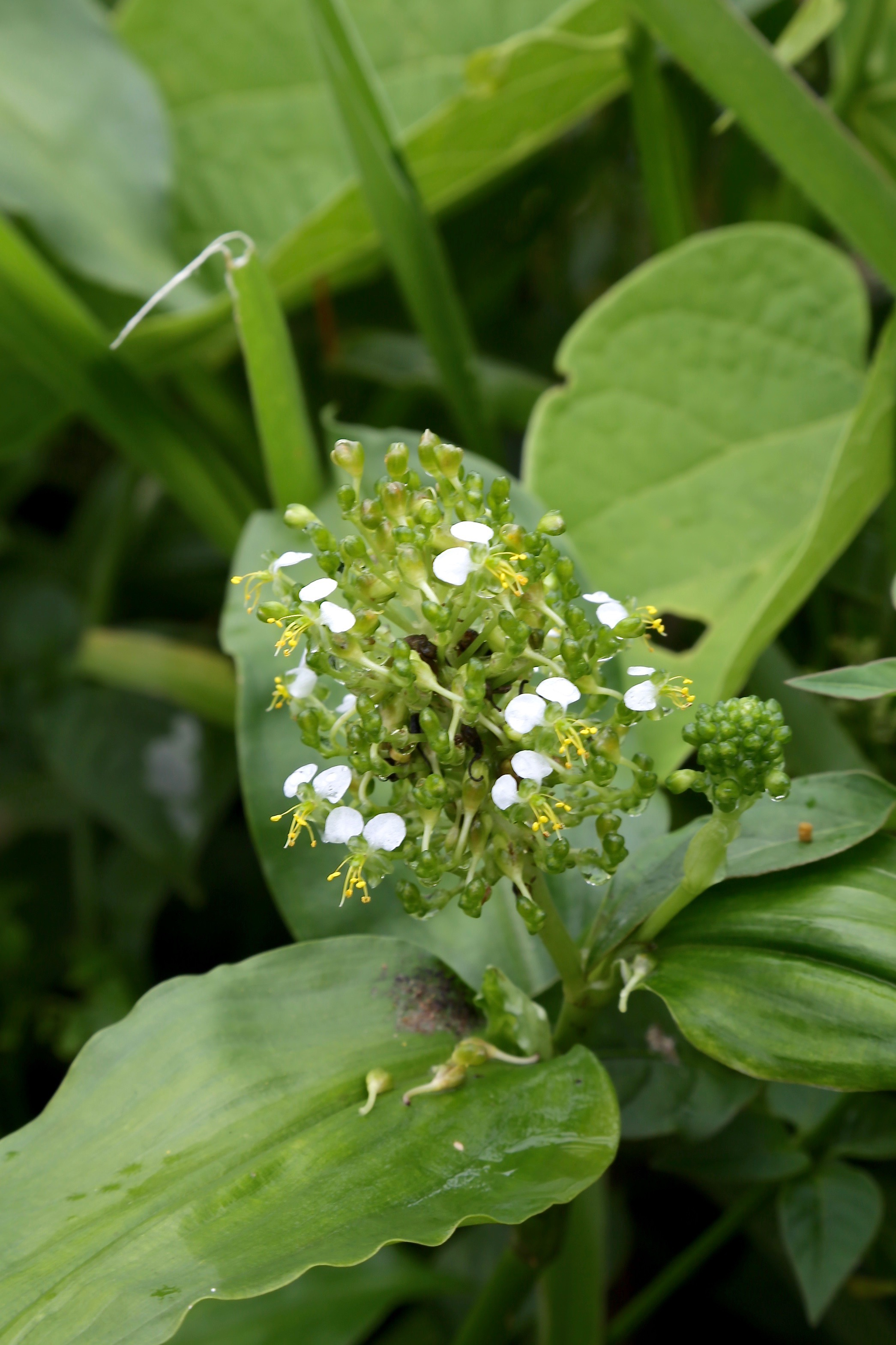 Ecuador, 2 km S of Puerto Misahualli, south of Rio Tena, along the road.